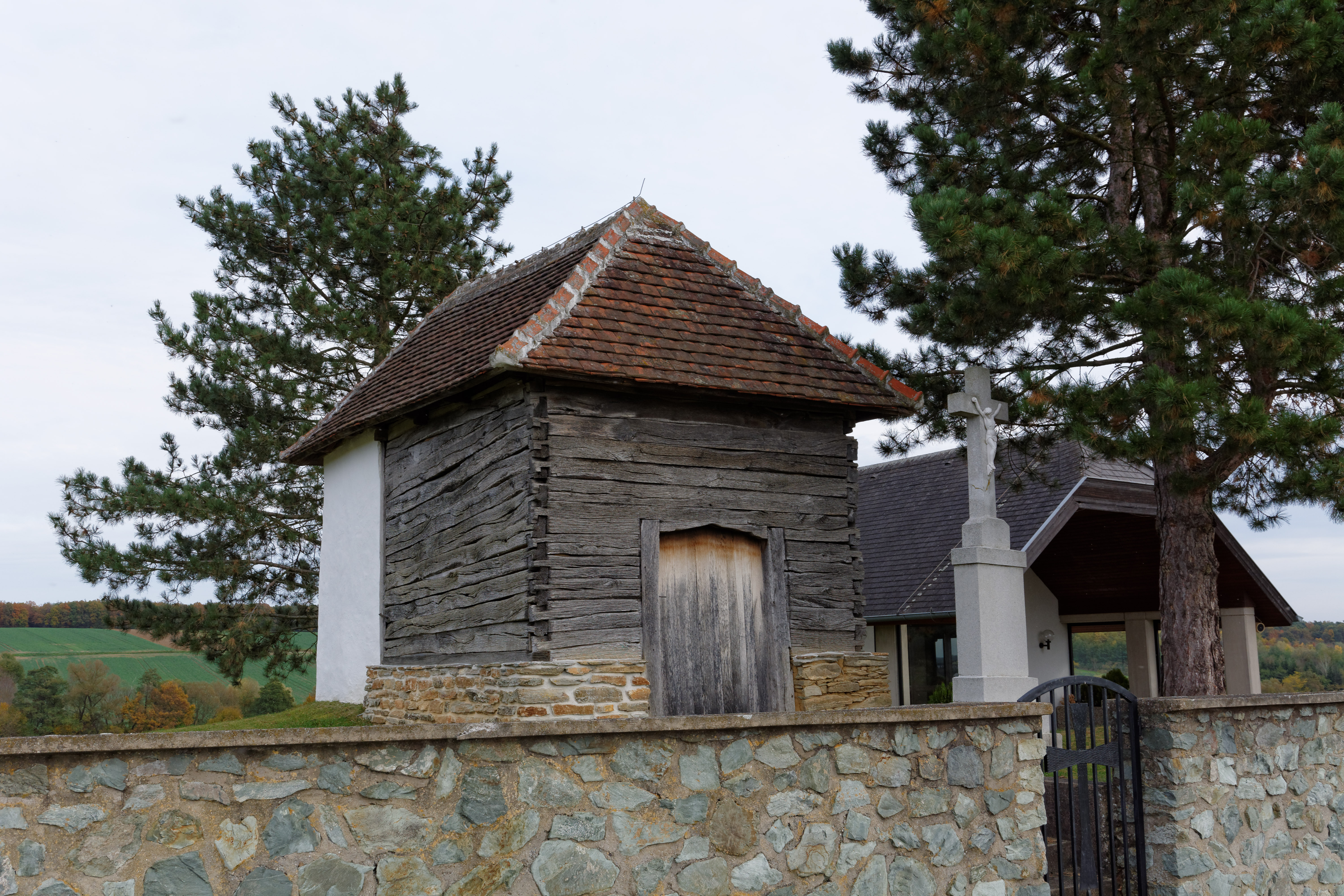 Cemetery chapel in Miedlingsdorf, Municipality Großpetersdorf, Burgenland, Austria